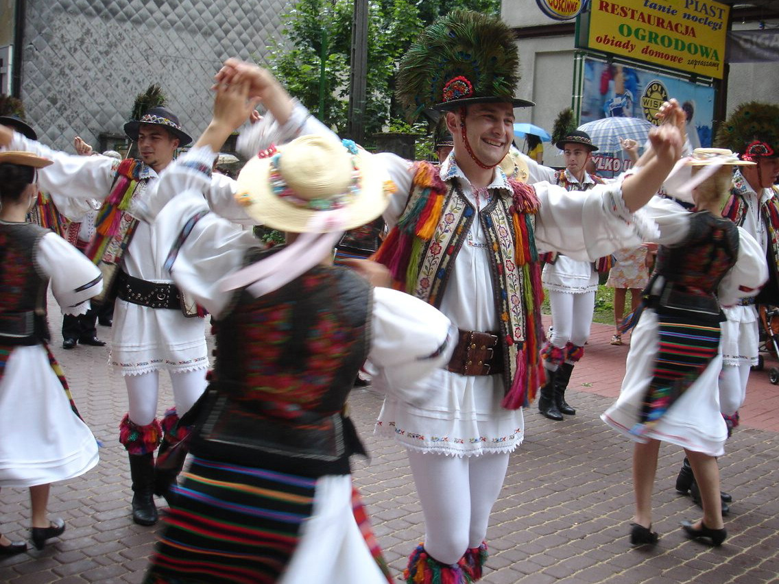 Folkloric dance group wearing Romanian traditional costumes from Bistrița Năsăud/Cluj-Napoca, Transylvania. Pictures taken in August 2008. Wisła. Poland.